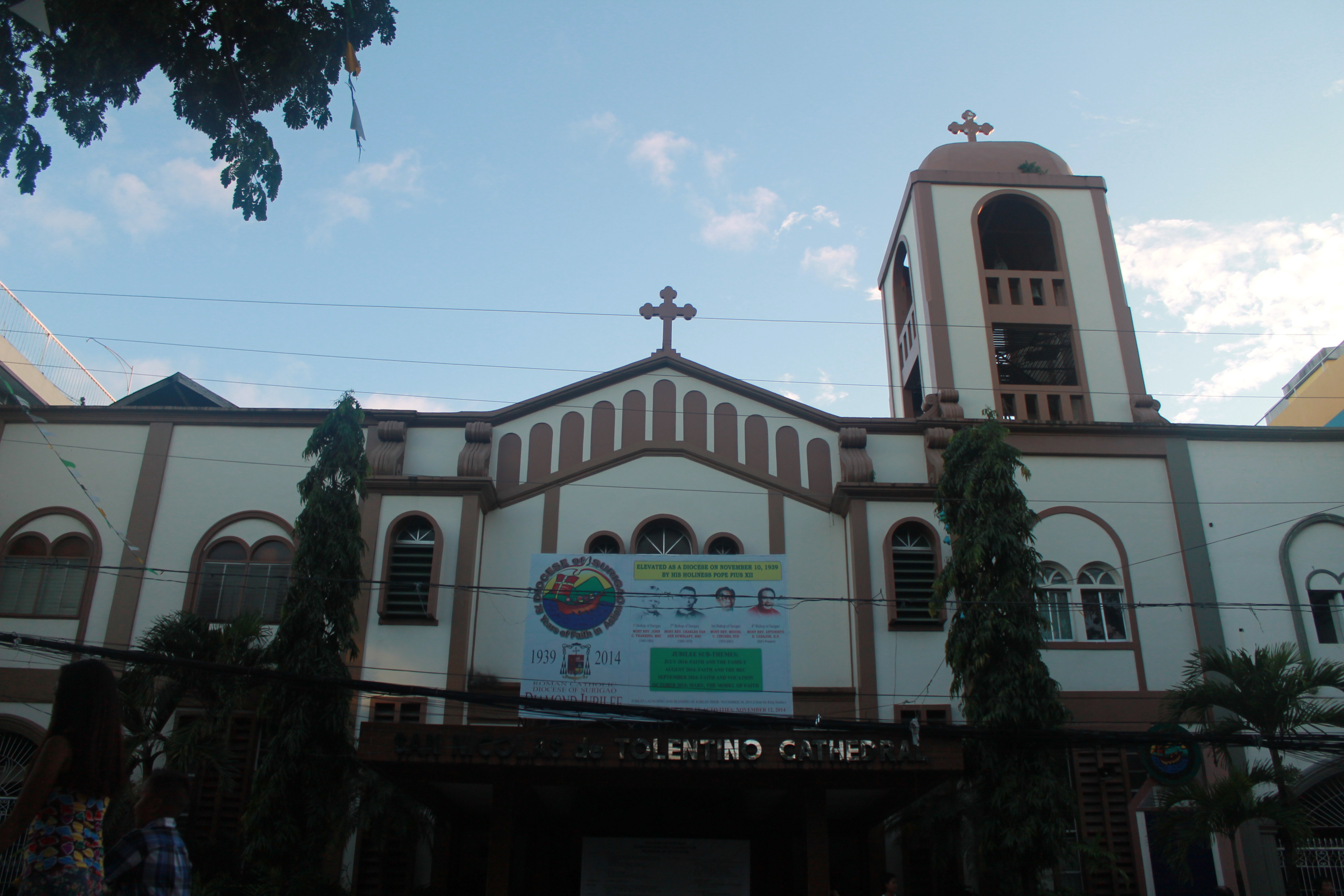 Cathedral of San Nicolas de Tolentino in Surigao City, Surigao del Norte in the Philippines